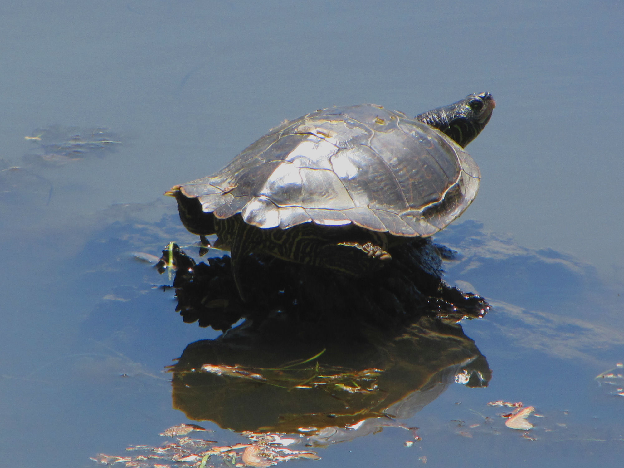 Northern Map Turtle (Graptemys geographica), Ottawa, Ontario, Canada